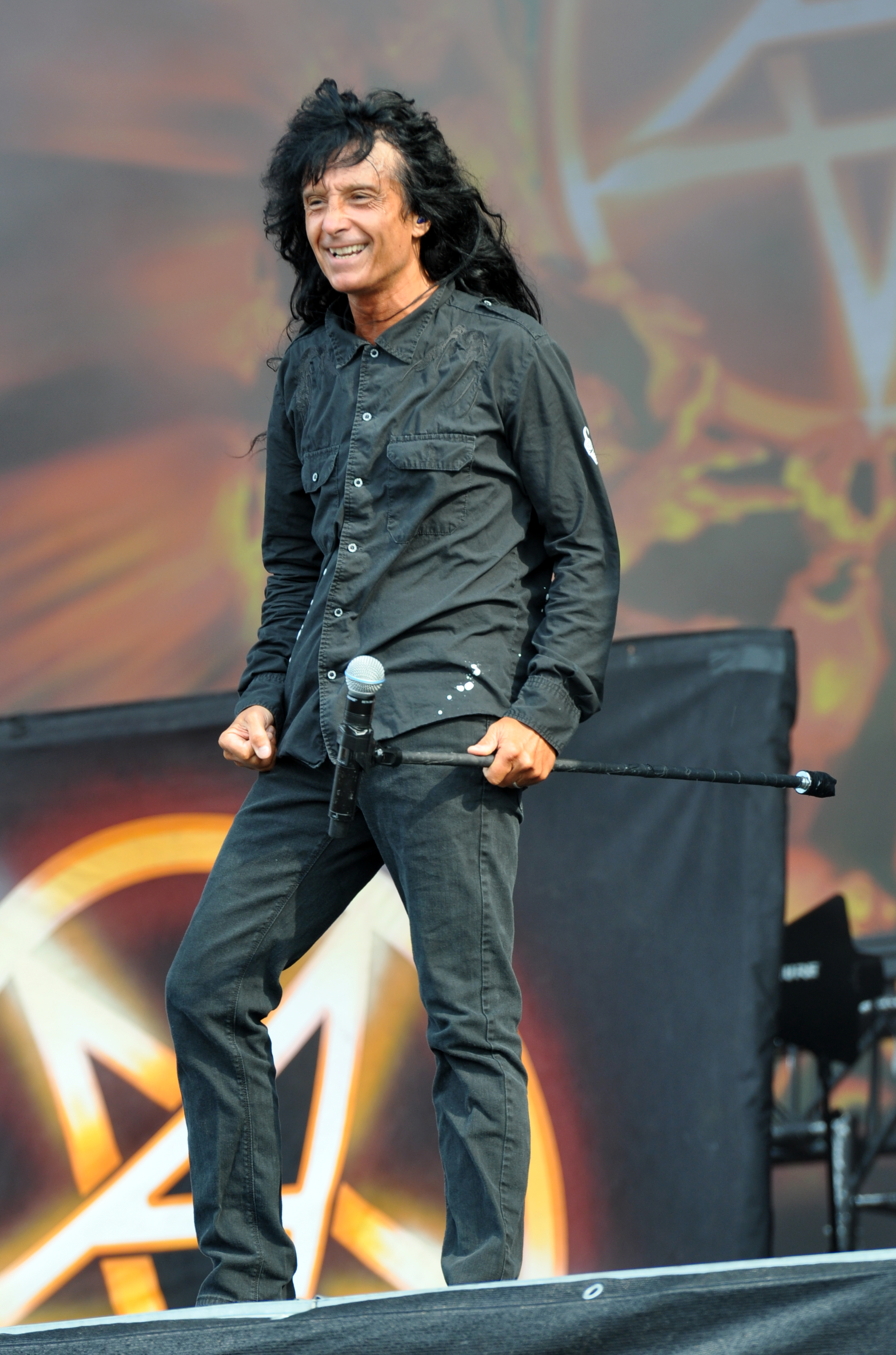 Anthrax at Wacken Open Air 2013